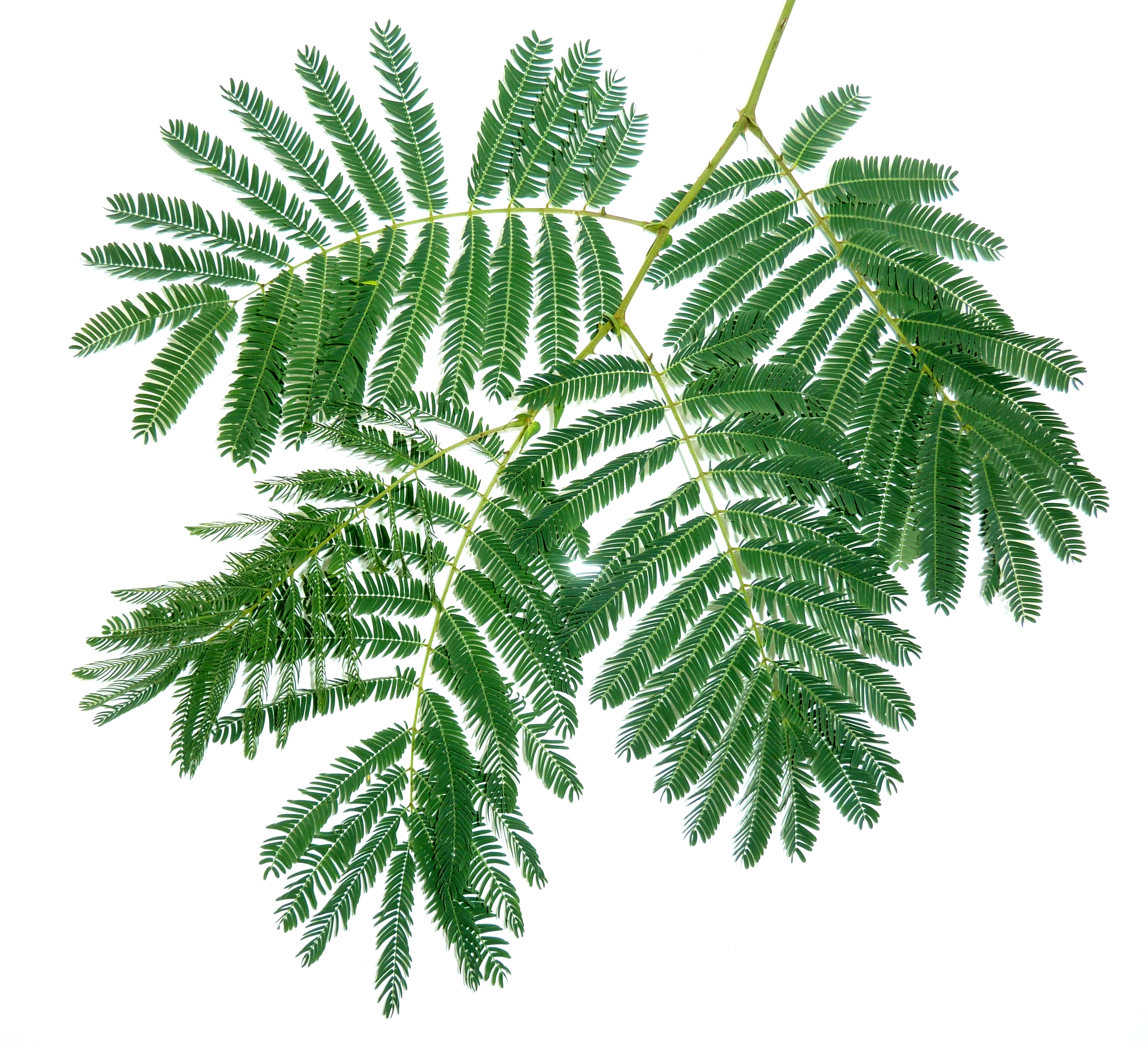 Five bipinnately compound leaves of a Flame thorn at Skeerpoort, on the southern slope of the Magaliesberg, South Africa. The prominent, obliquely ovate stipules have dilated bases. They occur in pairs above the nodes and are soon dropped.